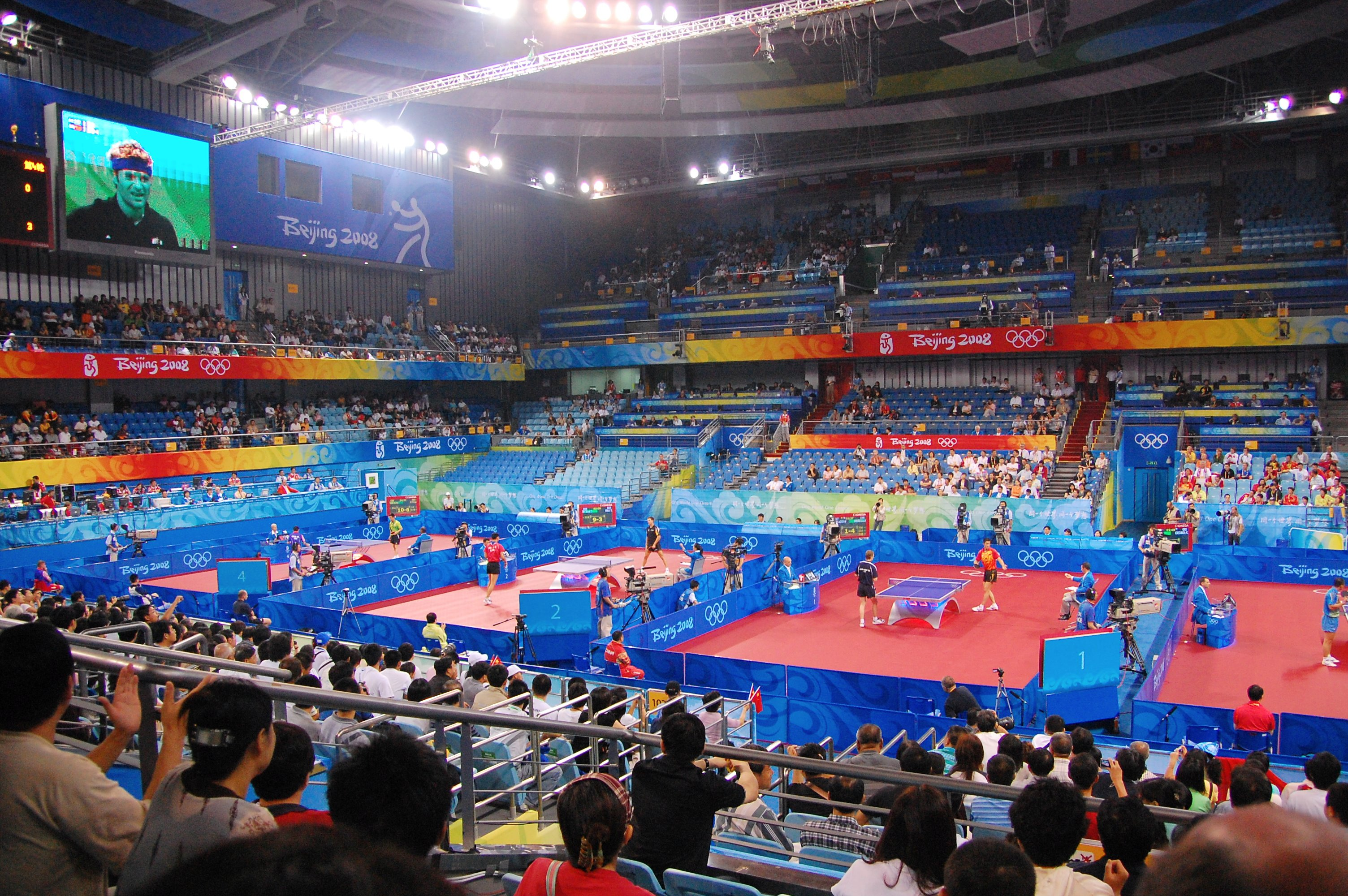 The Table Tennis Stadium